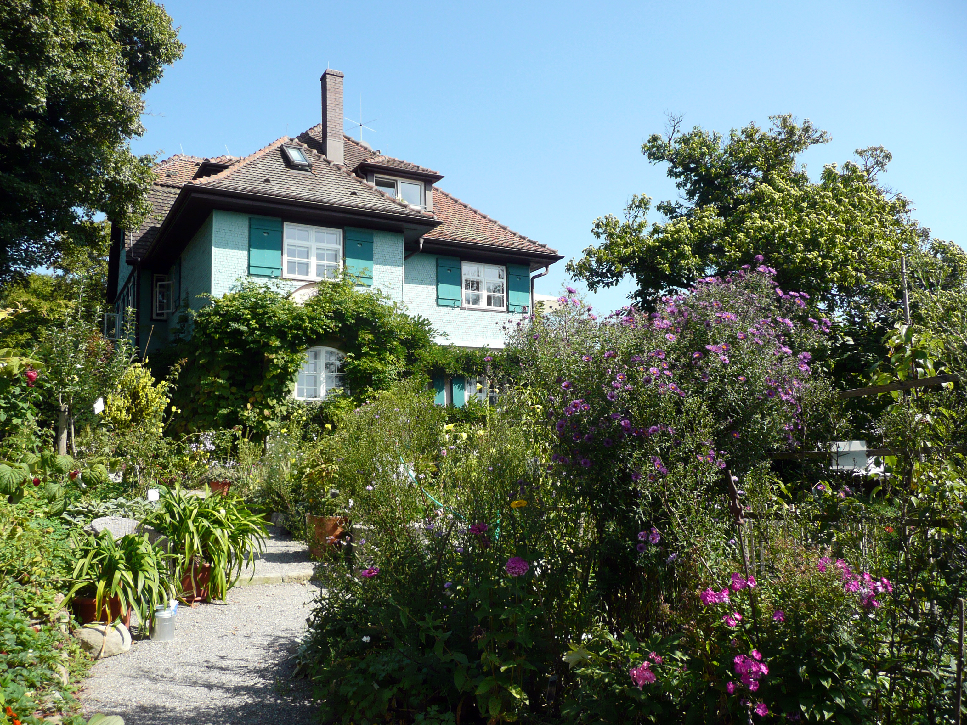 Villa of Hermann Hesse and his first wife Maria Bernoulli (Mia) in Gaienhofen on the Höri peninsula on Lake Constance where they lived with their three sons from 1907 to 1912 (seen from south). This private house can be visited after reservation.